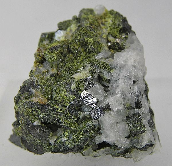 Tungstite, Ferberite Locality: Pongo, Murillo Province, La Paz Department, Bolivia (Locality at ) Size: 2.1 x 2.1 x 0.7 cm. This is a rich thumber of rare olive-green tungstite, intermixed with quartz here. Ex. Carl Davis Collection.